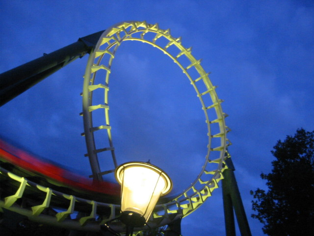 Rollercoaster "Python" (first looping) during the summernights, Efteling